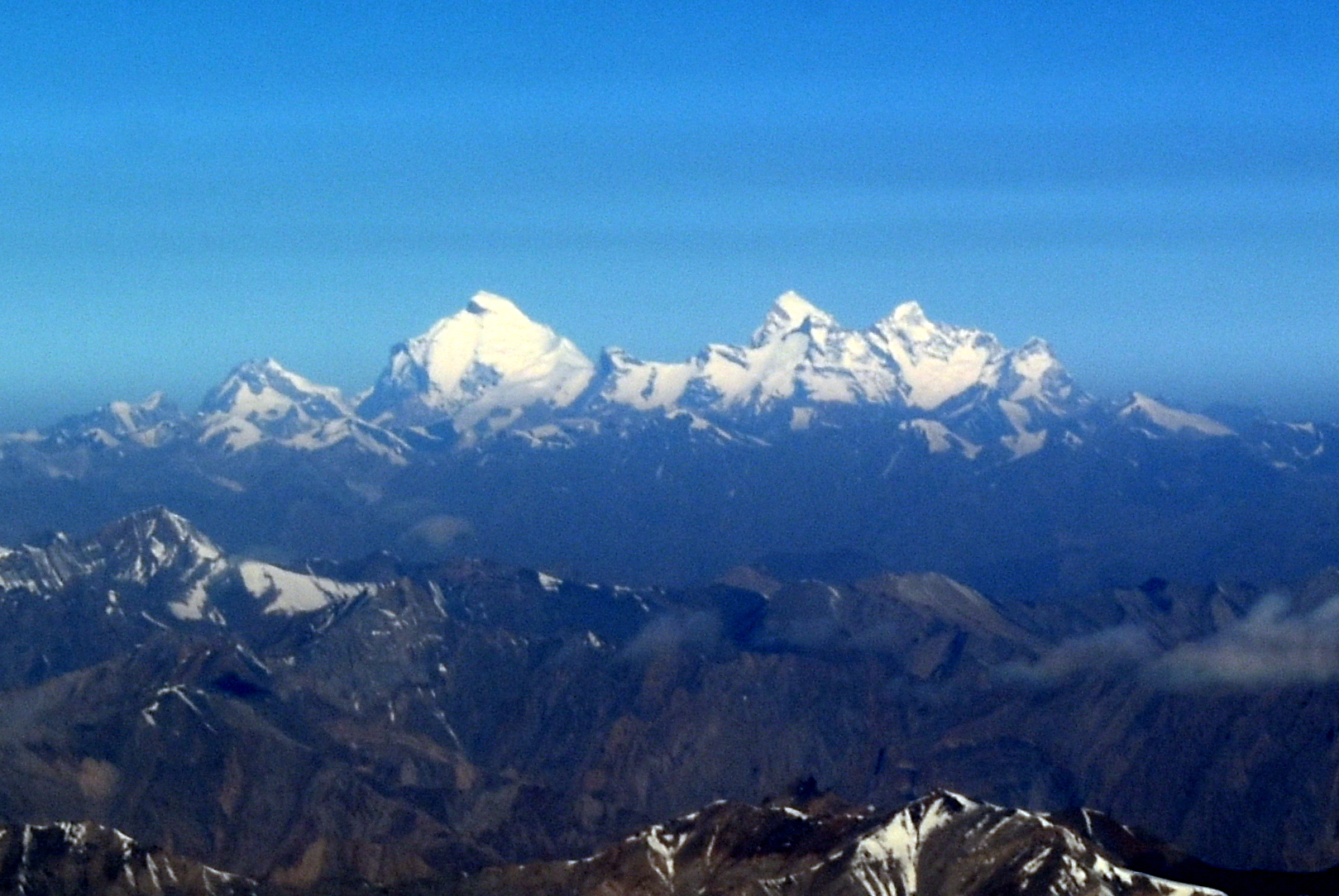 Aerial view of the Nun Kun mountain massif on way to Leh.